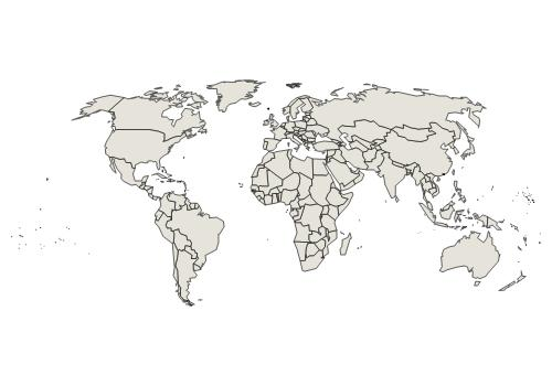 world map with Robinson projection